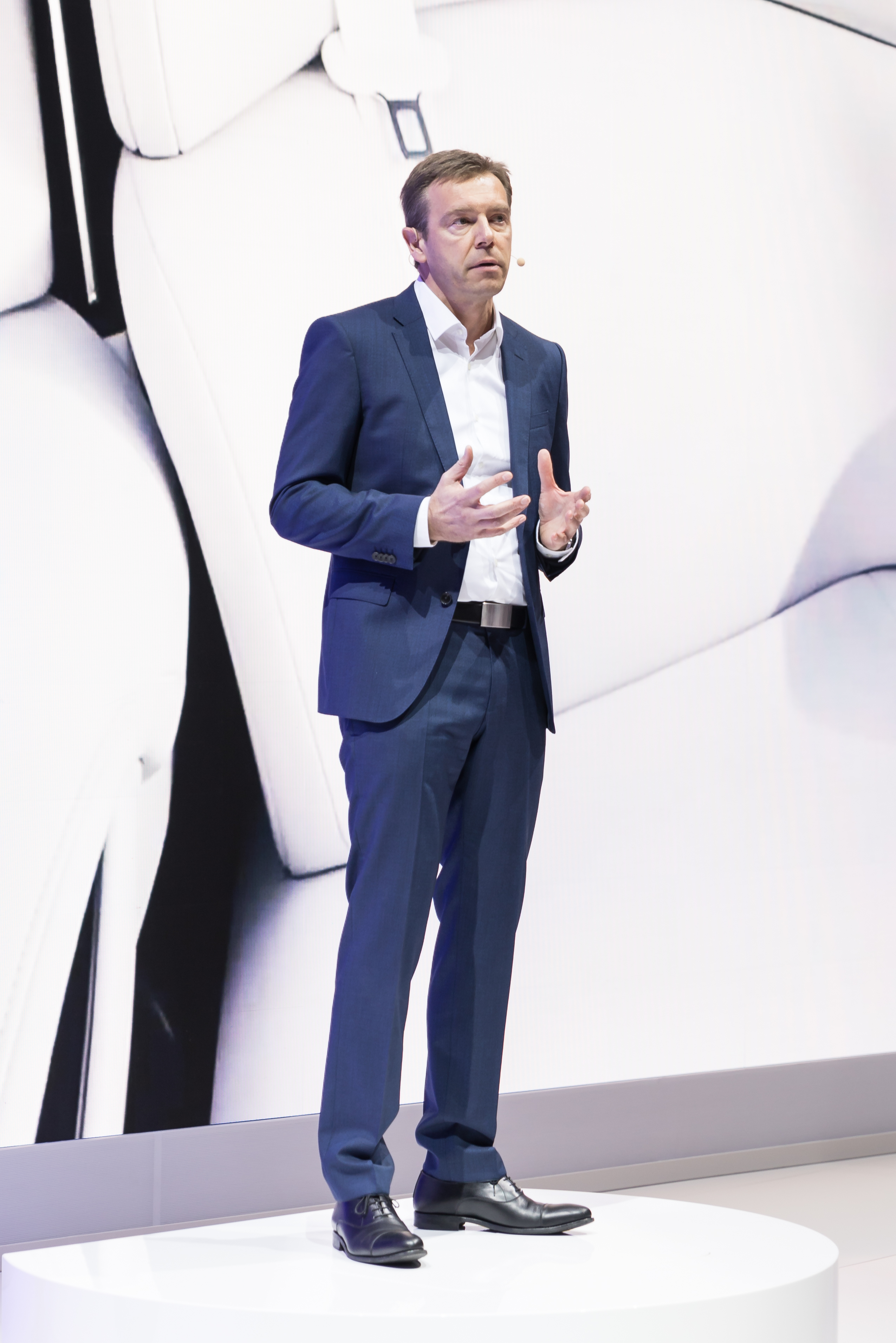 Geneva International Motor Show 2018